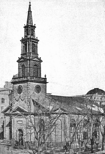 Second St. Peter's Episcopal Church building, Albany, NY, USA